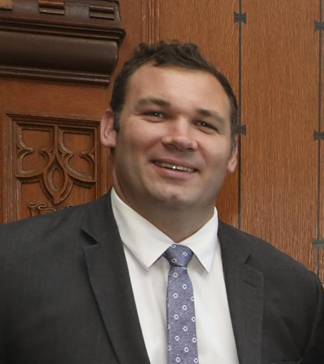 Great for John Brassard, Alex Nuttall and I to meet with Downtown Barrie Business Association today to talk about the businesses community there.